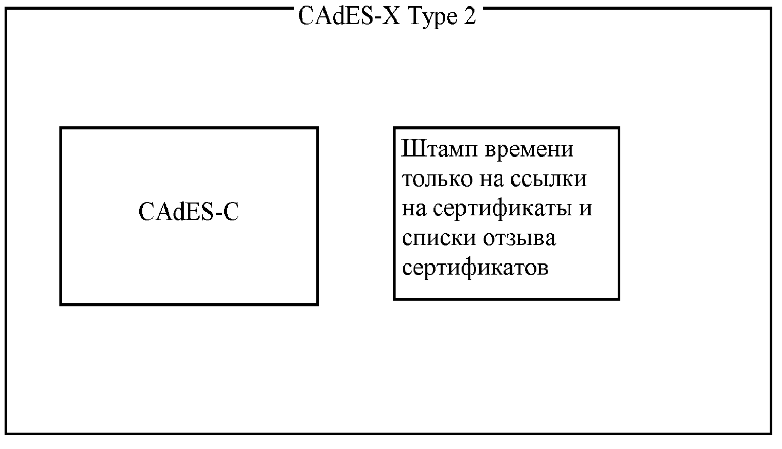 CAdES-X Type 2 Illustration